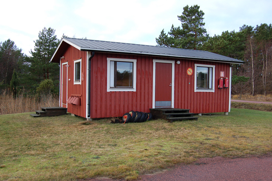 Station building at Kumlinge airfield (EFKG) in Kumlinge, Åland, Finland